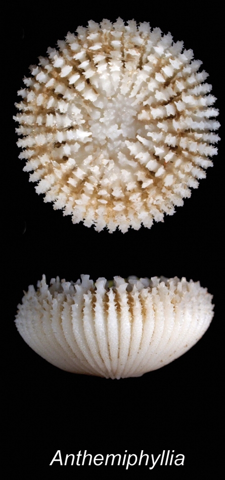 Cut-outs from original files: Recent_azooxanthellate_Scleractinia_(Cnidaria,_Anthozoa)_-_ZooKeys-227-001-g001 - 023